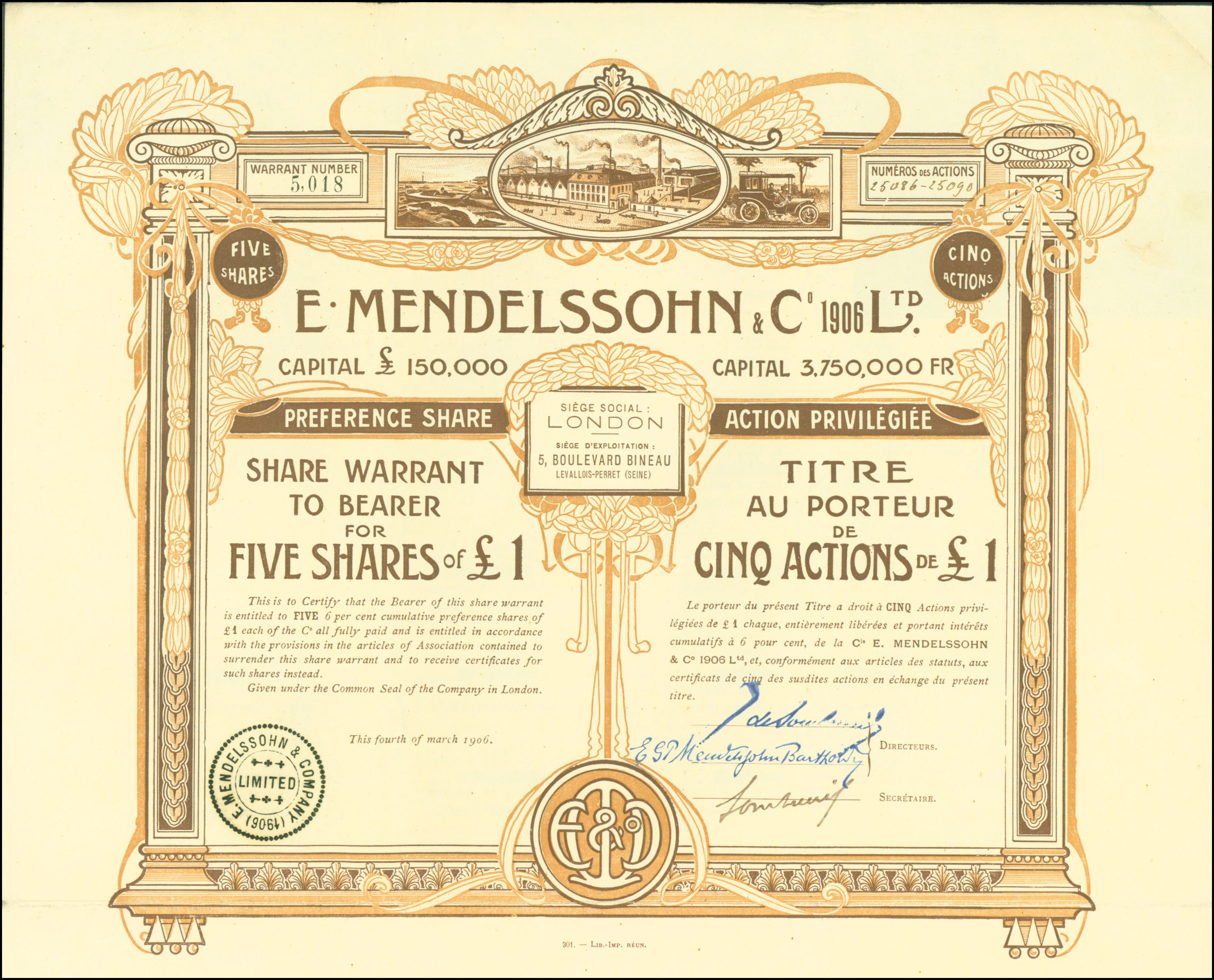 Preference Share of the E. Mendelssohn & Co 1906 Ltd., issued 4. March 1906 This company sold in France cars, which were built by Passy-Thellier.